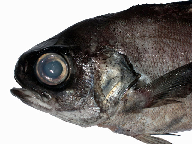 Head of Hyperoglyphe perciformis bought in Barcelona fish market.